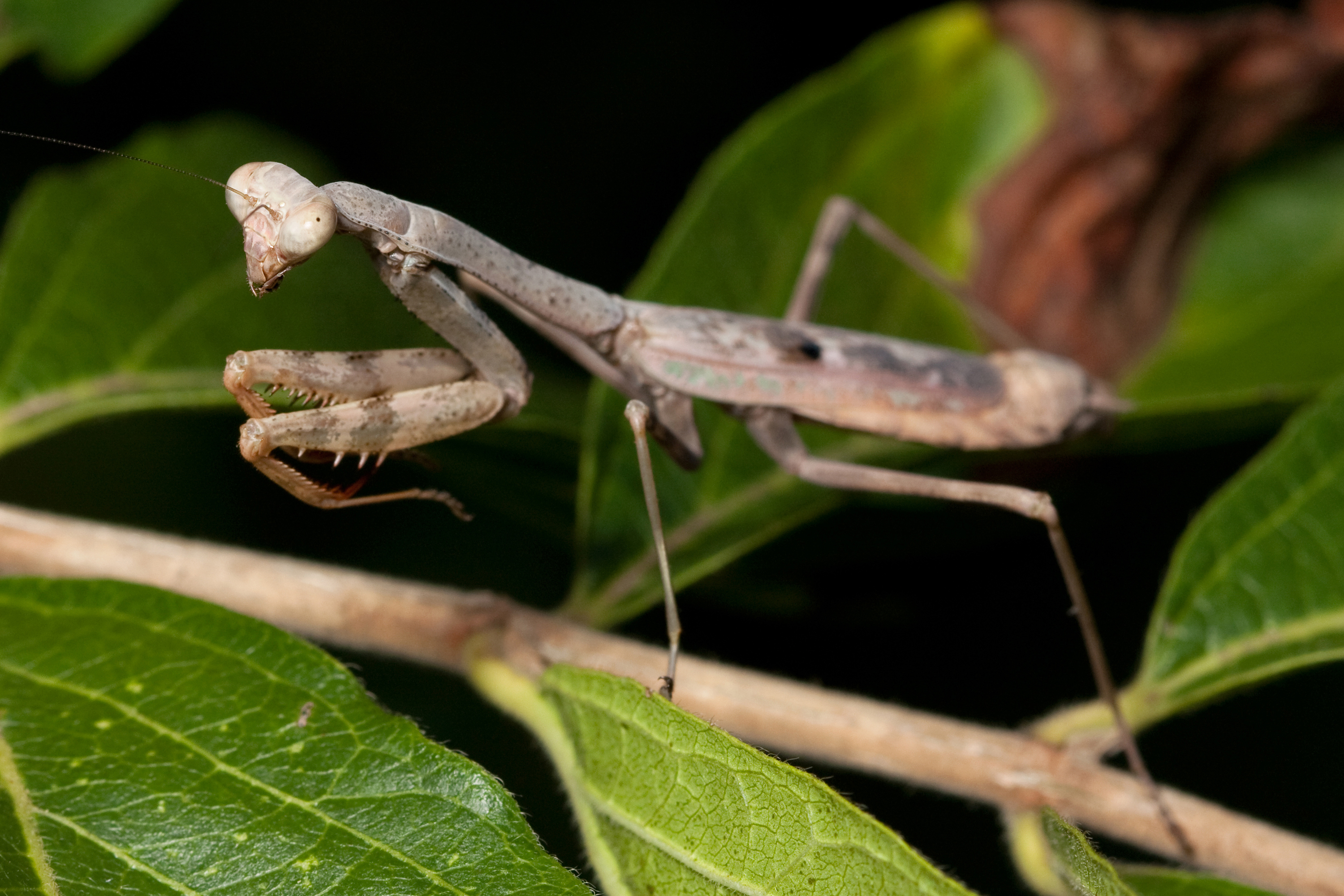 Adult female Carolina mantis (Stagmomantis carolina) at Shelby Park in Nashville, Tennessee